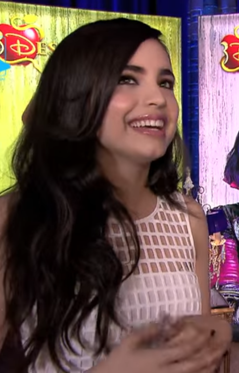 Sofia Carson.